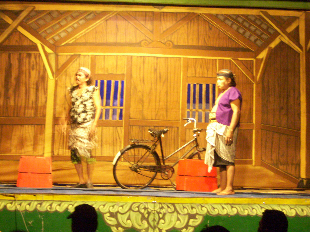 Kethoprak (Javanese popular drama depicting legends, historical or pseudo-historical events). Performance by Kethoprak Tobong Kelana Bhakti Budaya, Bantul, Yogyakarta, Indonesia.